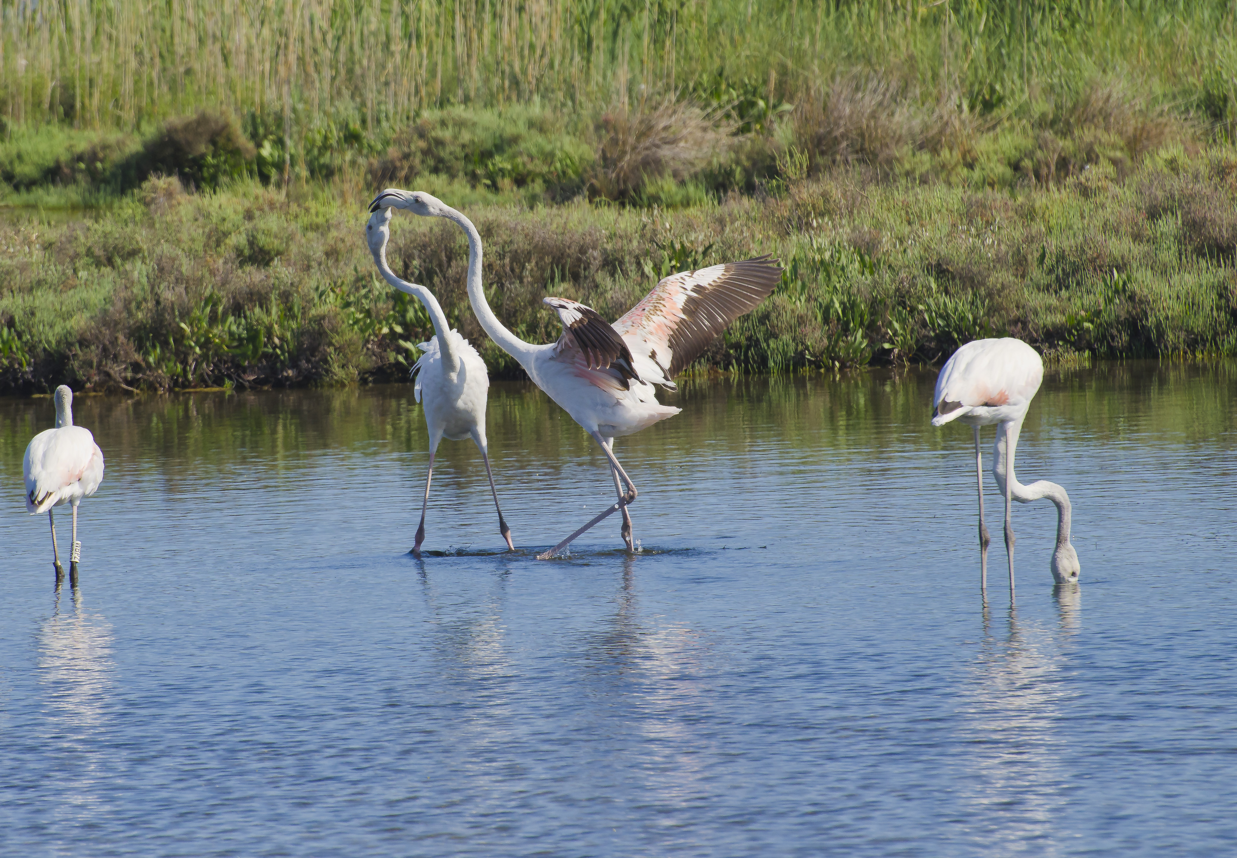 Greater Flamingos, aggressive behavior during territorial fights. Picture taken in the Laguna di Venezia, Italy.